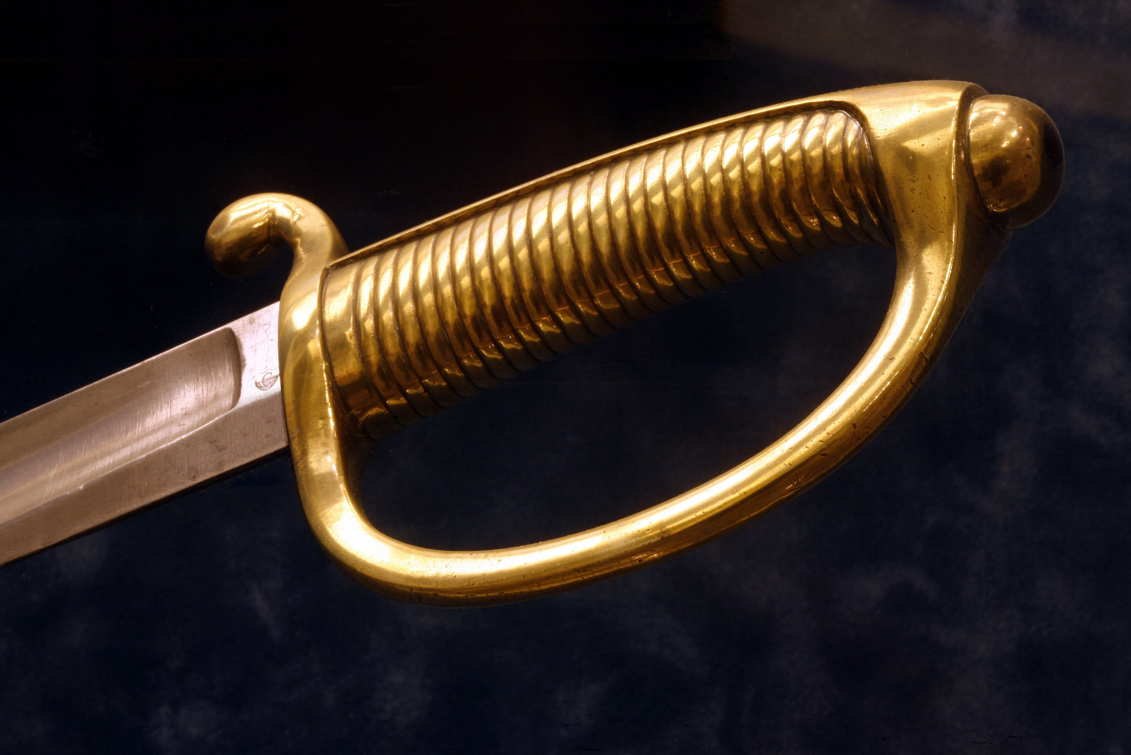 Sabre of an officer of the militia of Lausanne